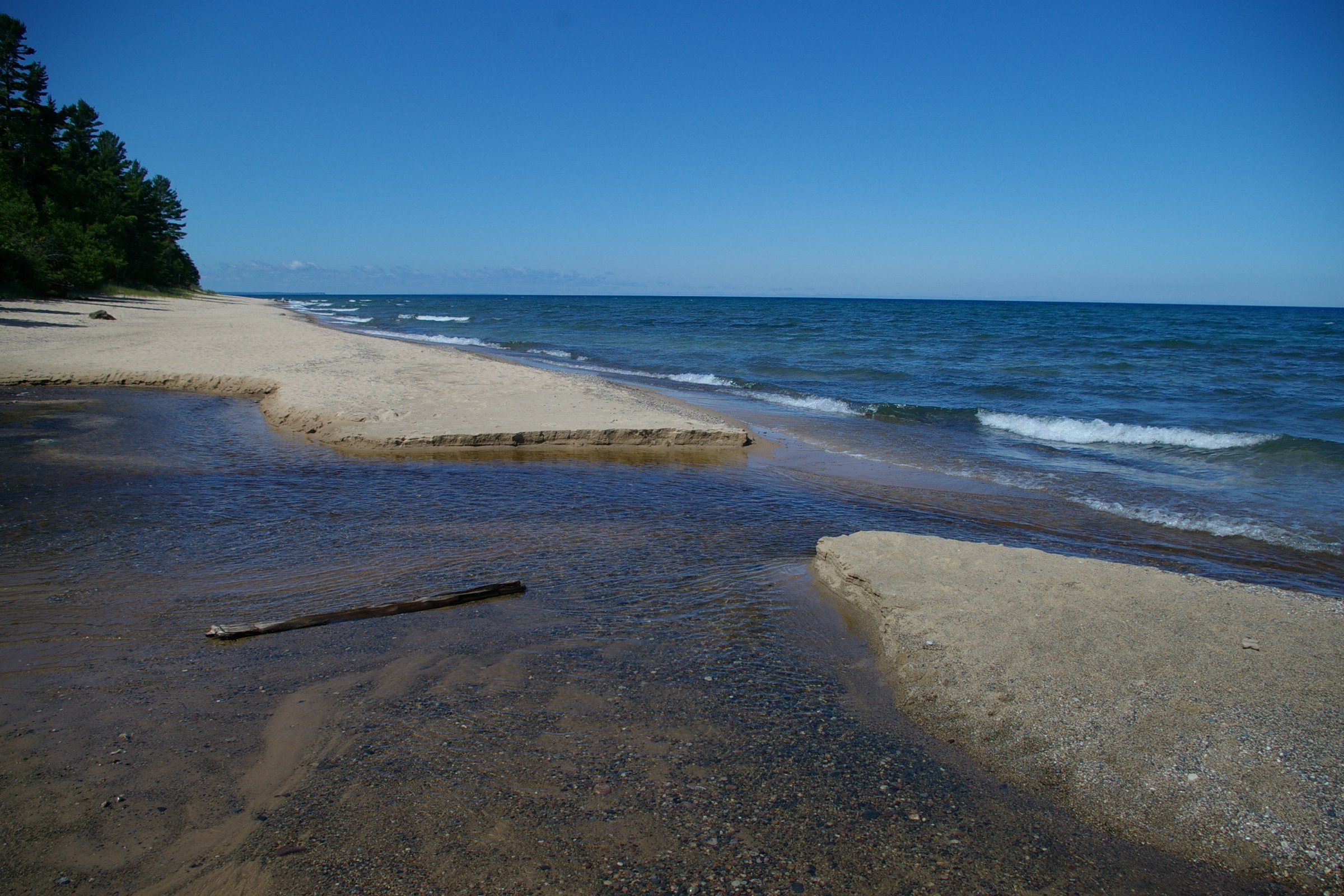 Hurricane River flowing into Lake Superior